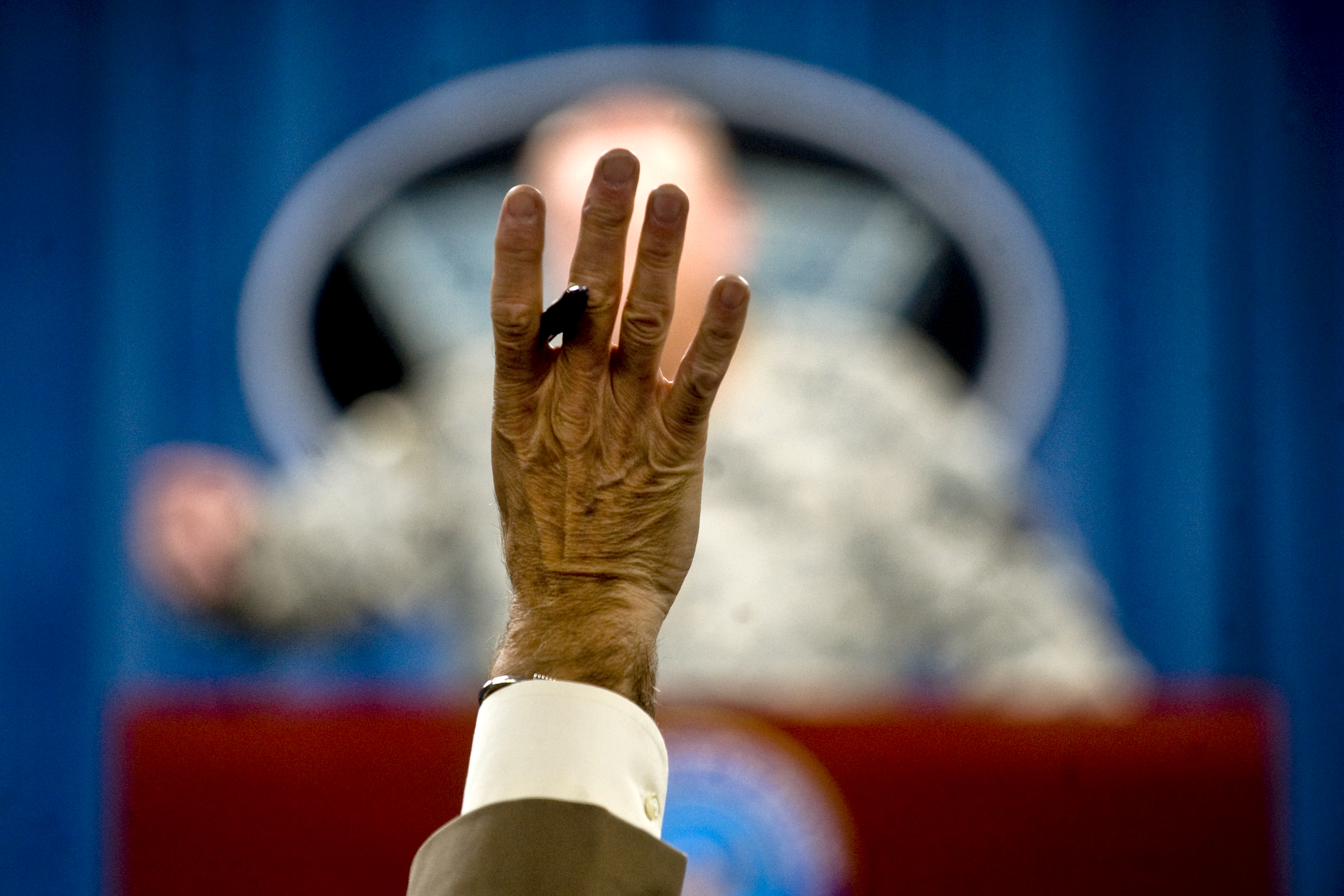 A reporter raises his hand to ask a question as US Army Gen. Ray Odierno, Commander of US Forces-Iraq, delivers an operational update on the state of affairs in Iraq during a press briefing at the Pentagon, 4 June 2010.